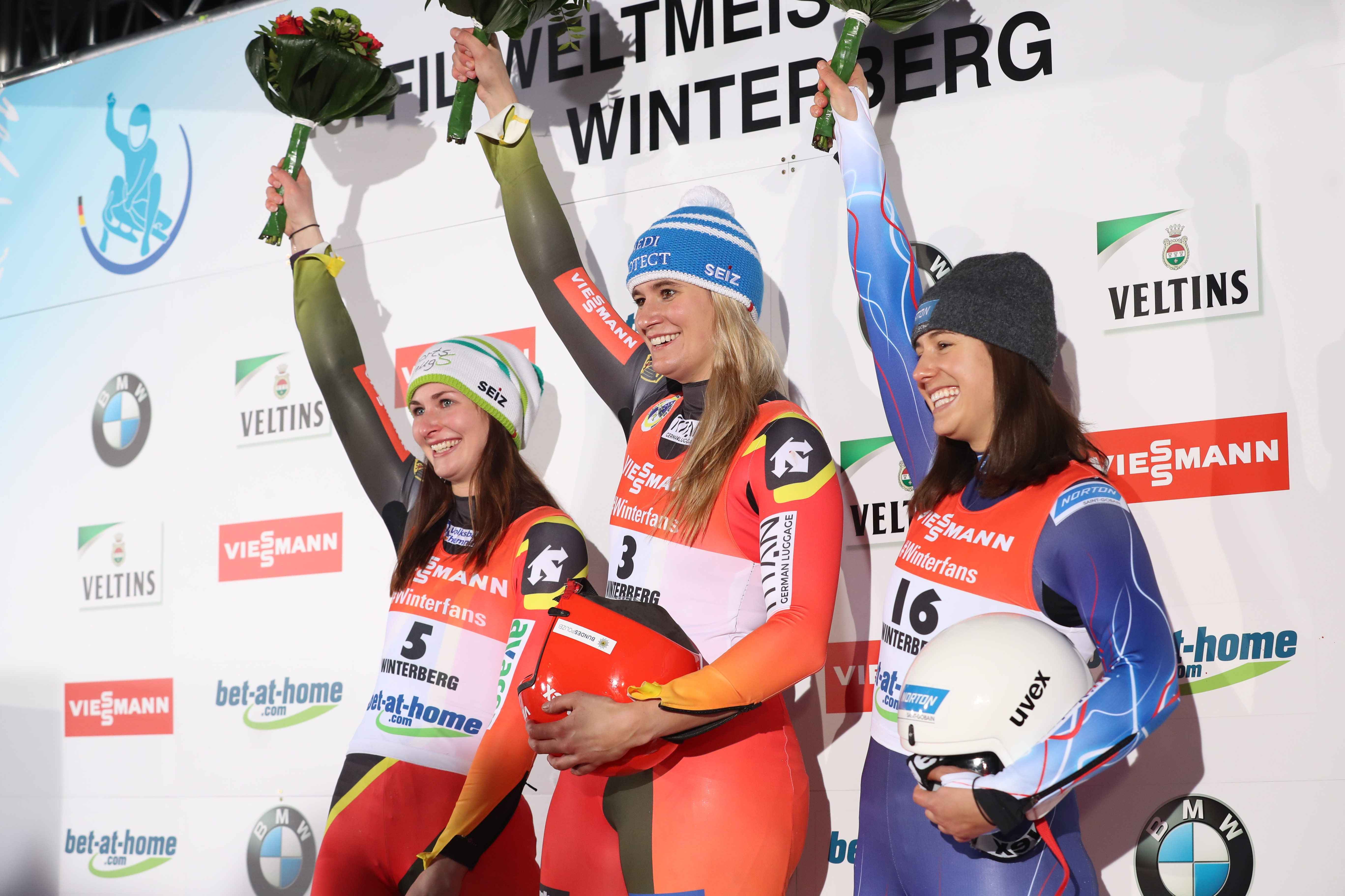 Women's race at the FIL World Luge Championships 2019 in Winterberg